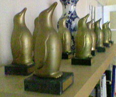 Gold-plated penguins of plaster. Called Ottos they are prices at the yearly role playing congress Fastaval in Århus, Denmark